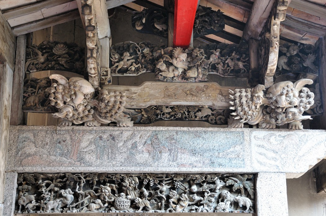 Chaozhou Woodcarving in Nigou Village,PN